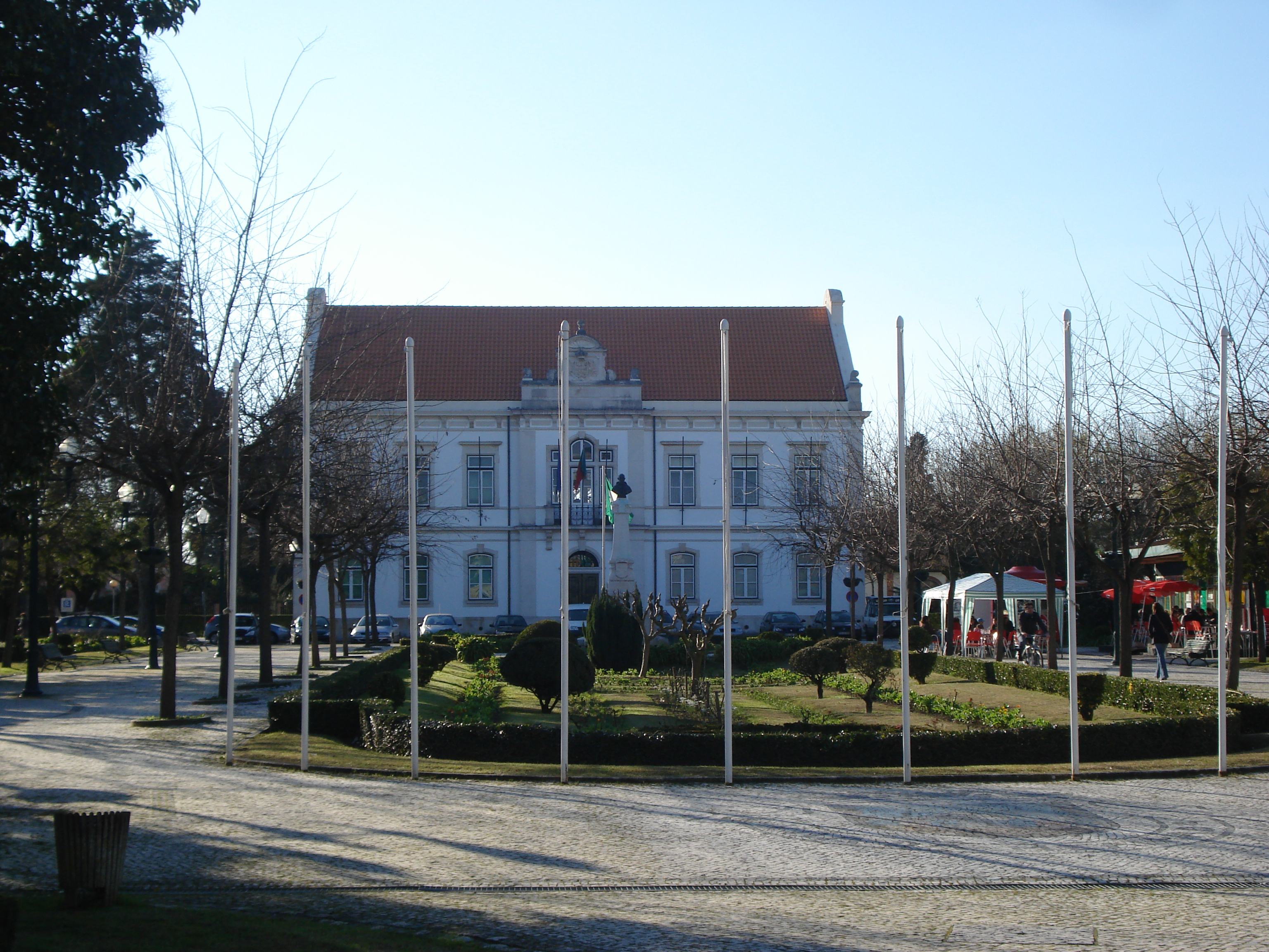 Mealhada's center garden.